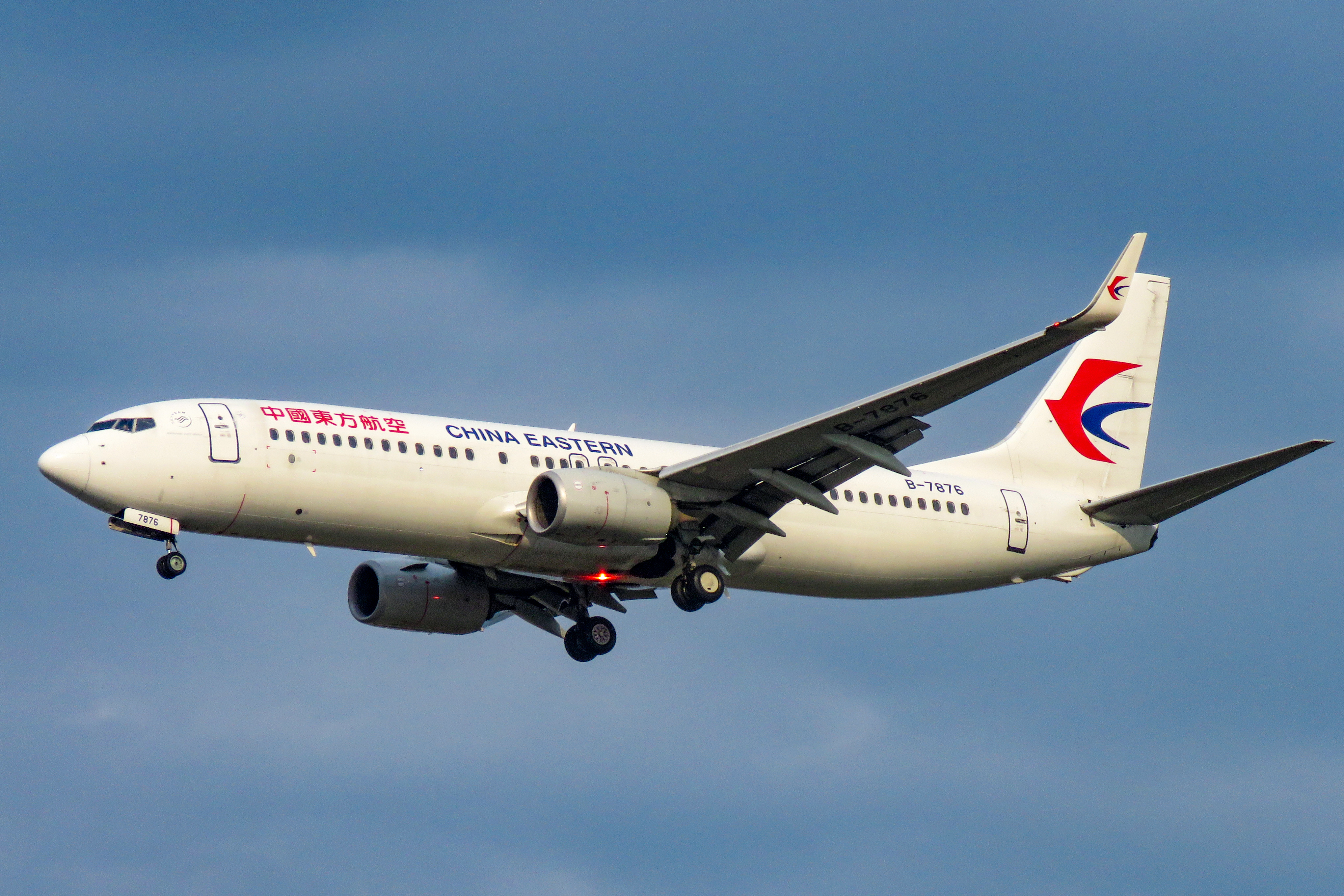 China Eastern 2453 from Enshi via Wuhan.